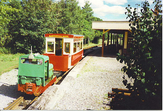 Haughton Park Railway Station. This narrow gauge railway runs through Haughton Country Park, Alford.